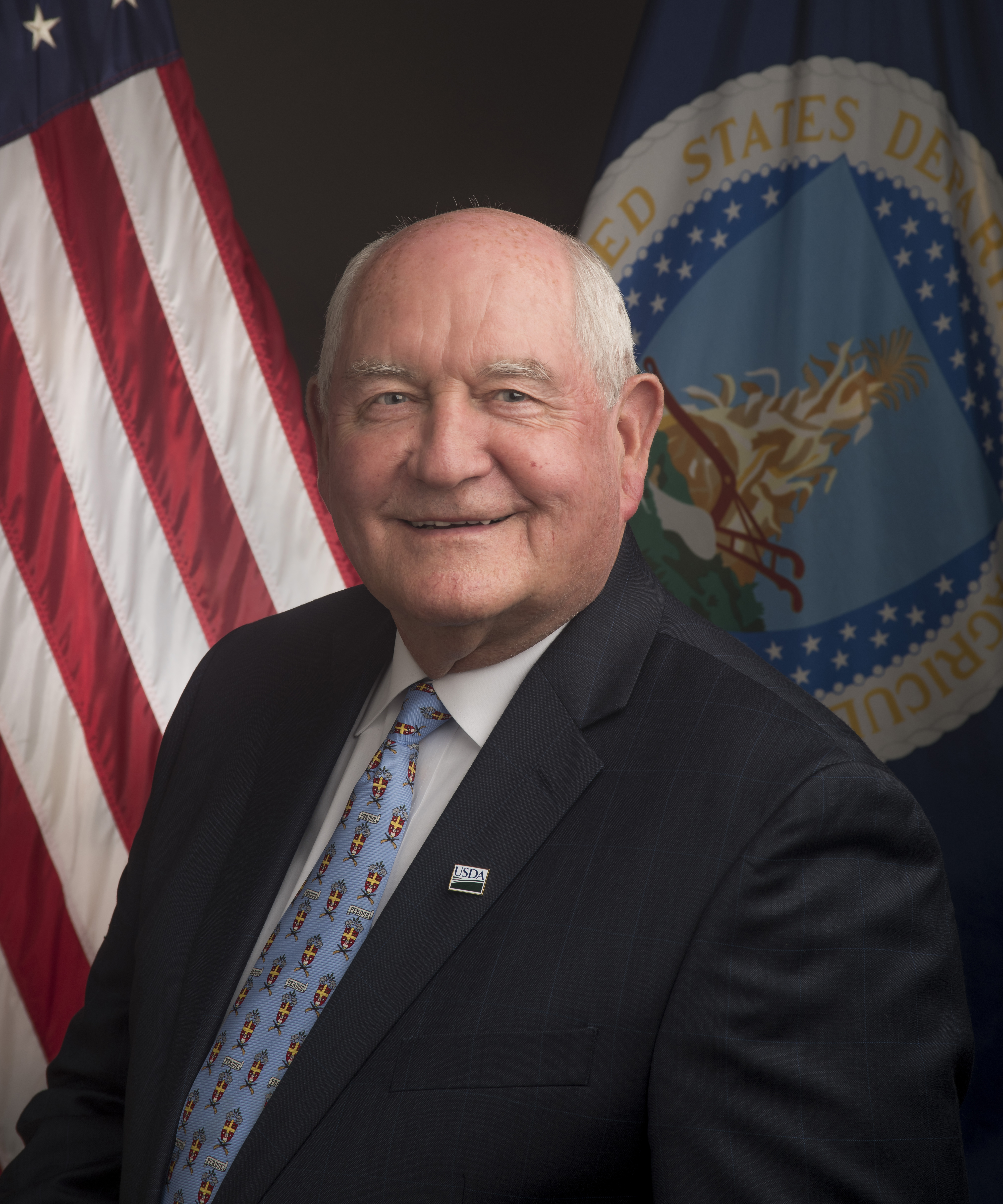 Sonny Perdue, 31st United States Secretary of Agriculture.